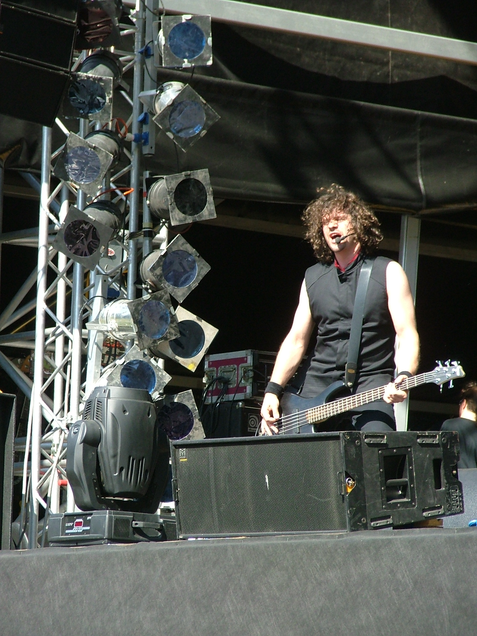 German symphonic metal band Krypteria at the Metalcamp in Tolmin